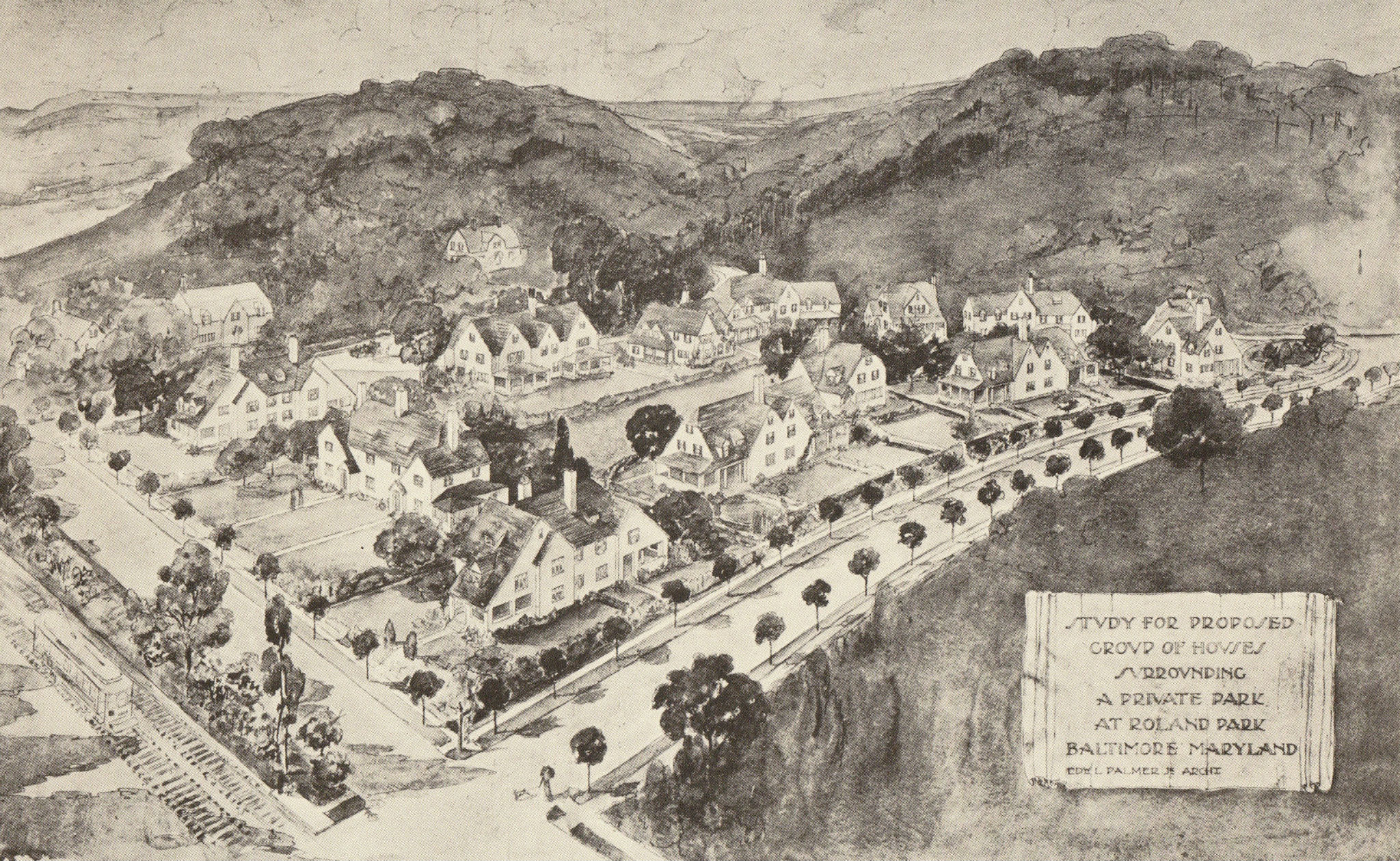 Early plan of Roland Park near Baltimore, Maryland, USA (1908)